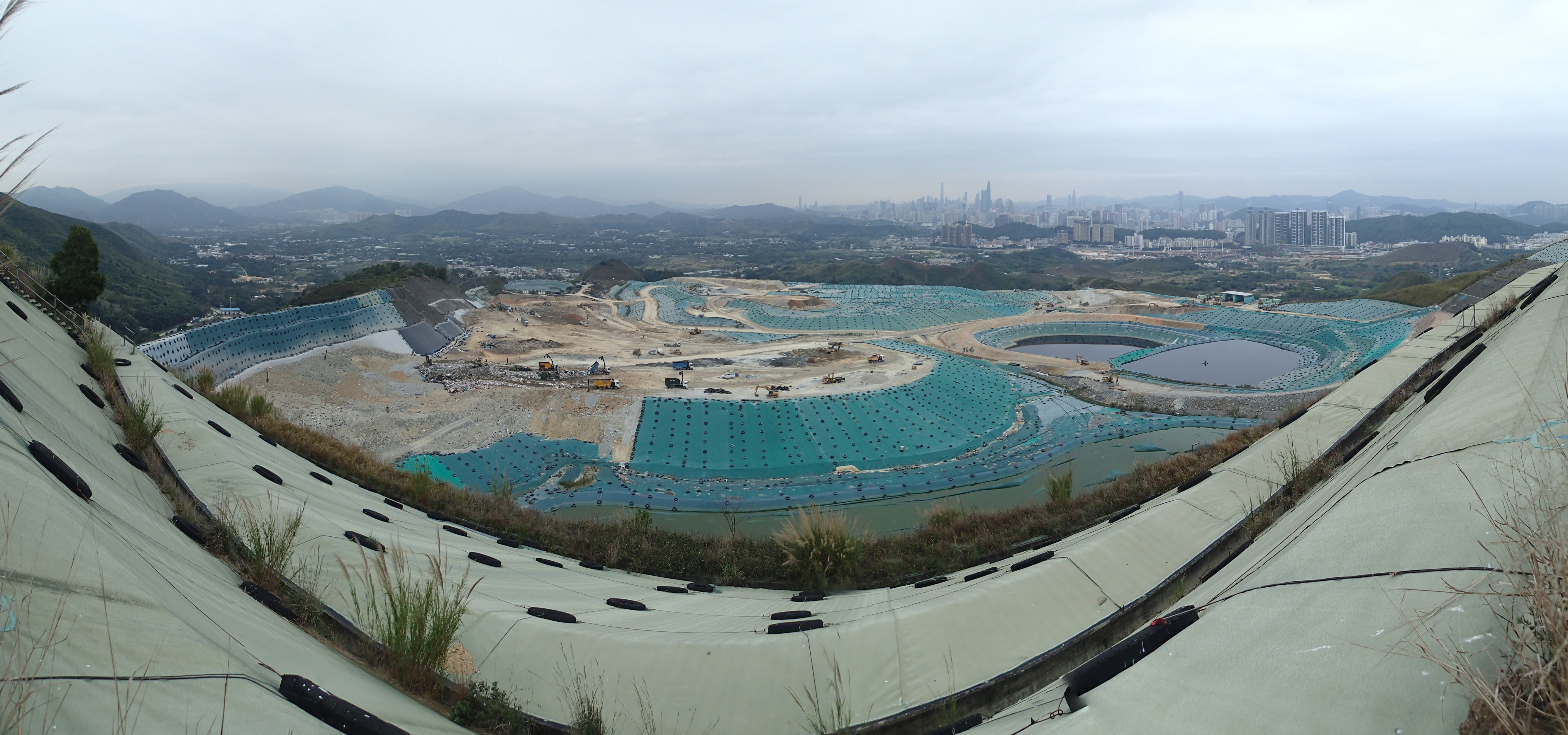 North East New Territories Landfill